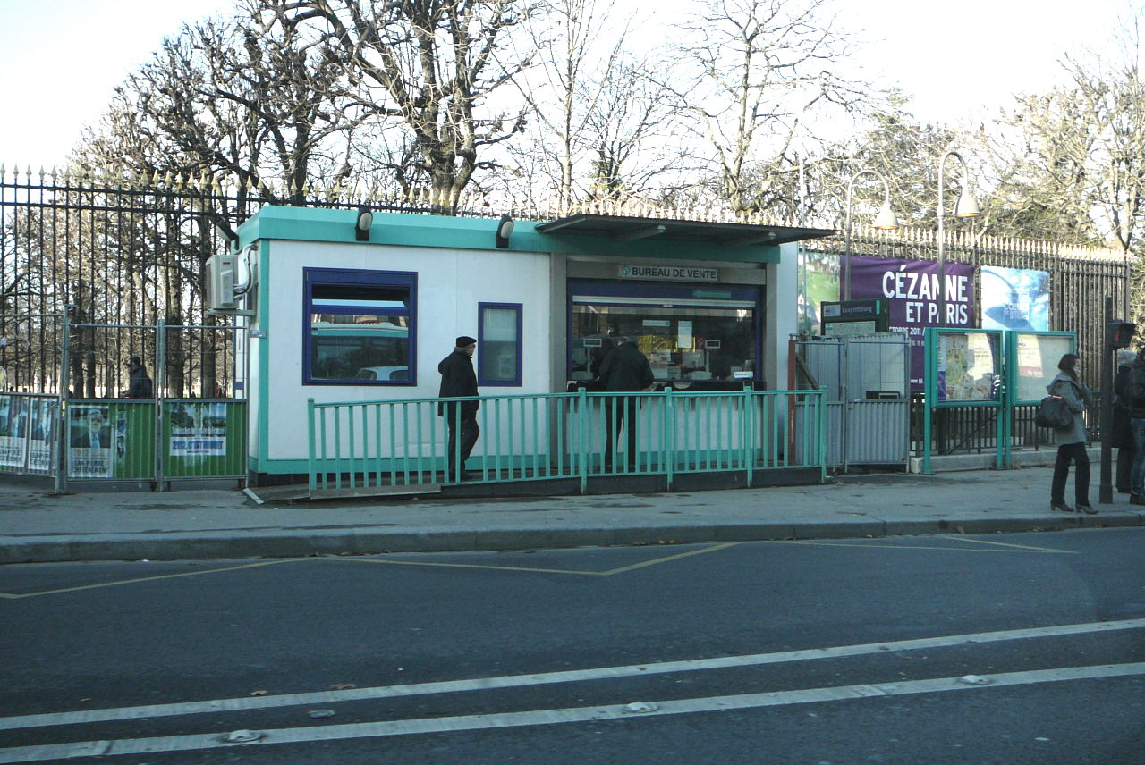 Temporary ticket office, RER B - Luxembourg, 2009-2012 (?)